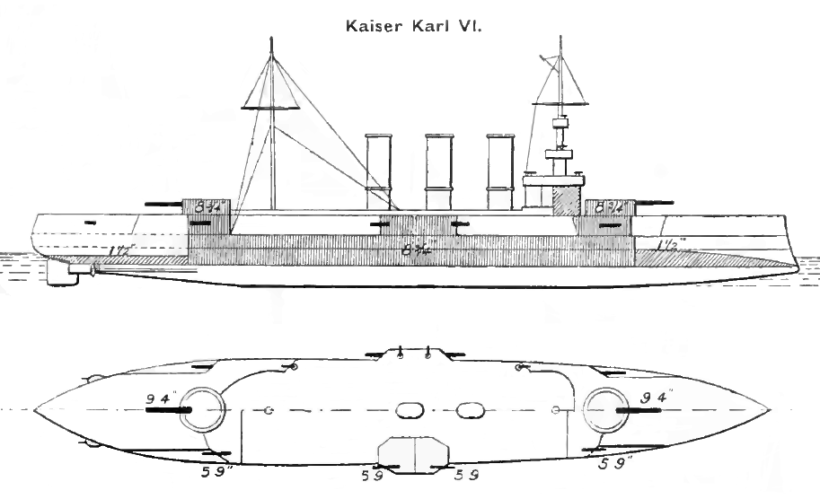 Sketch of the Austro-Hungarian armoured cruiser Kaiser Karl VI.